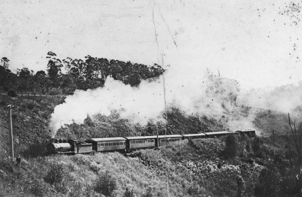 Locomotive near Harlaxton on the Toowoomba Range, 1914. The 'Sydney Mail' near Harlaxton on the Toowoomba Range. The Locomotive 612 was built in the Ipswich Railway Workshops in 1911 and was written off in 1956. (Description supplied with photograph).